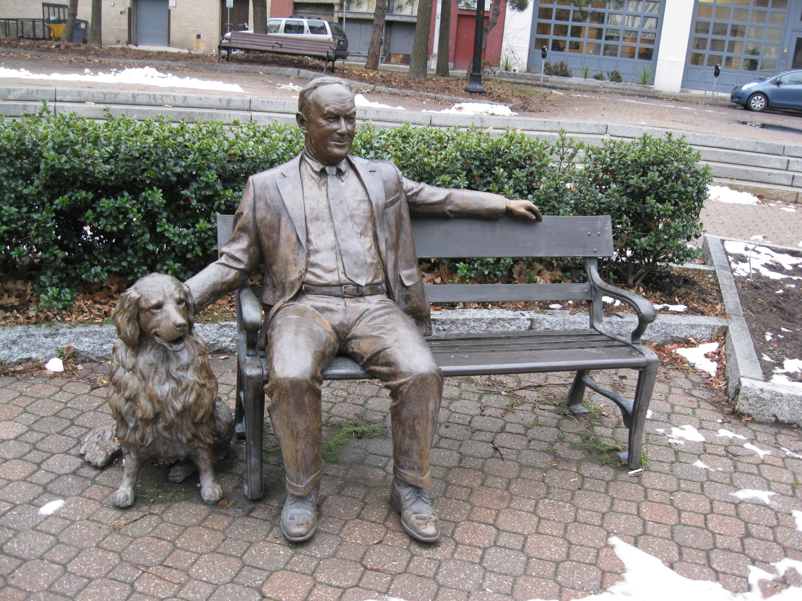 Statue of former-Mayor Thomas Whalen III and his dog Finn McCool in Tricentennial Park, Albany, NY, USA.